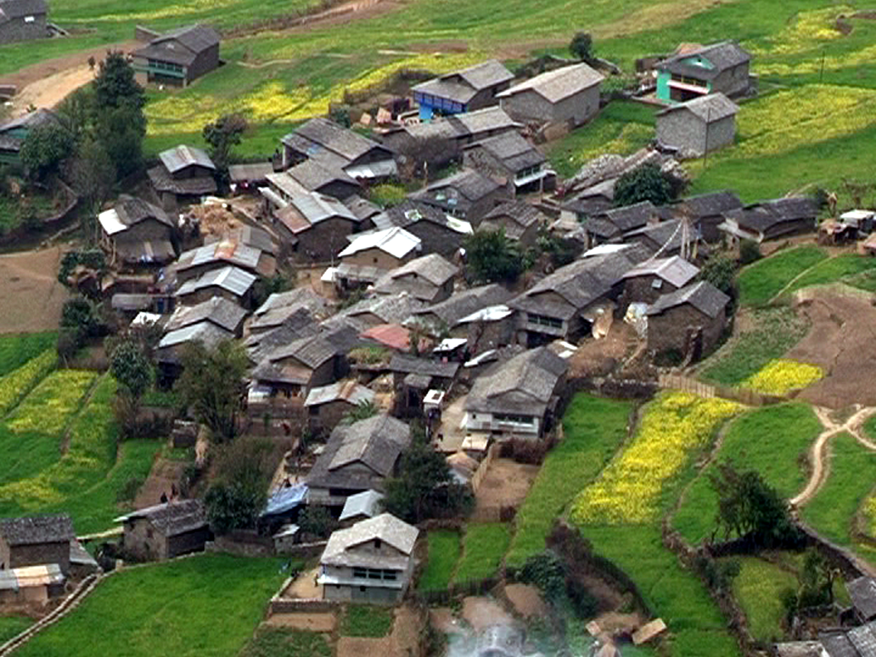 A village in Gorkha District.